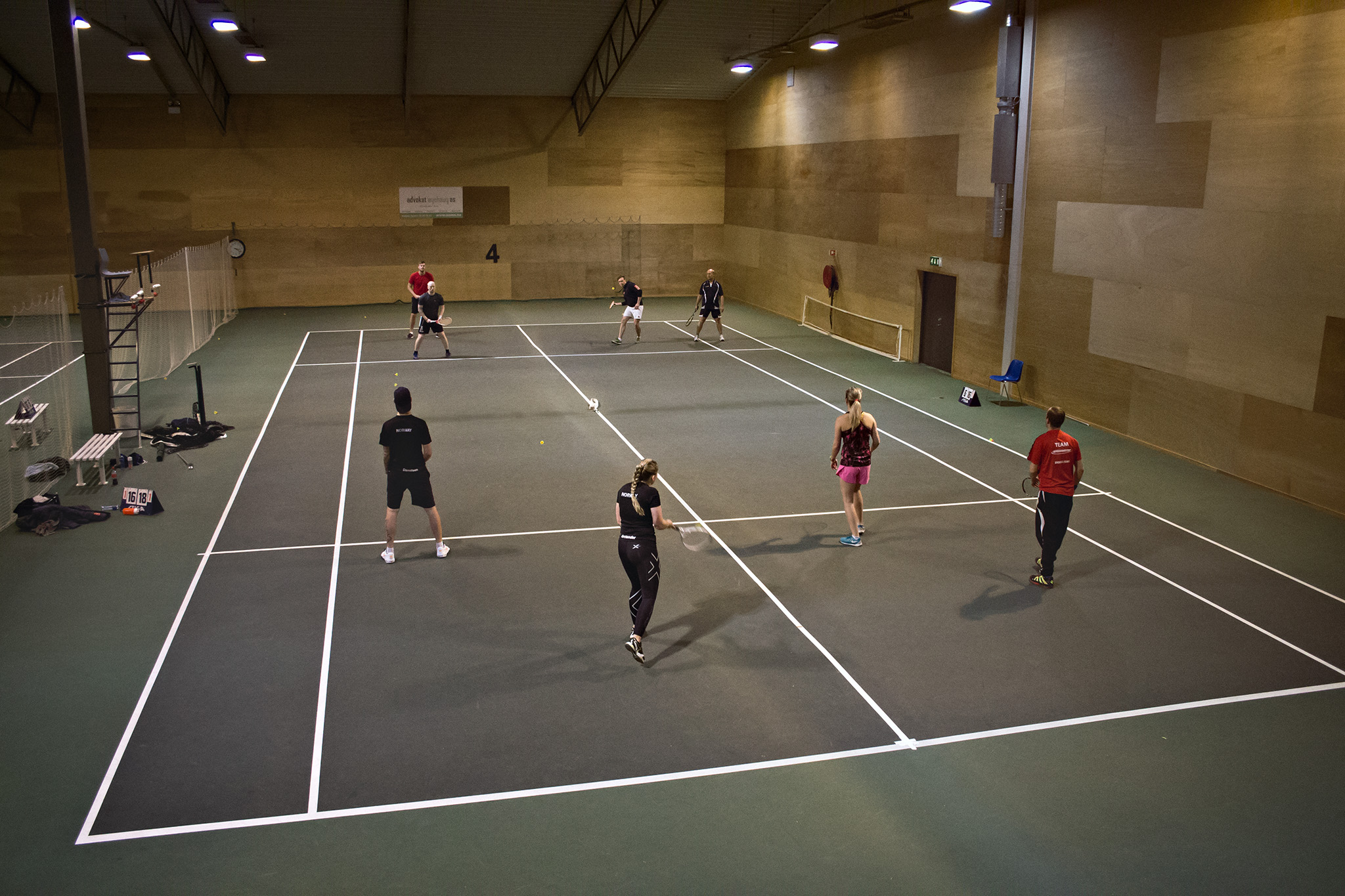 Doubles matches at Norwegian Open Crossminton tournament 2016